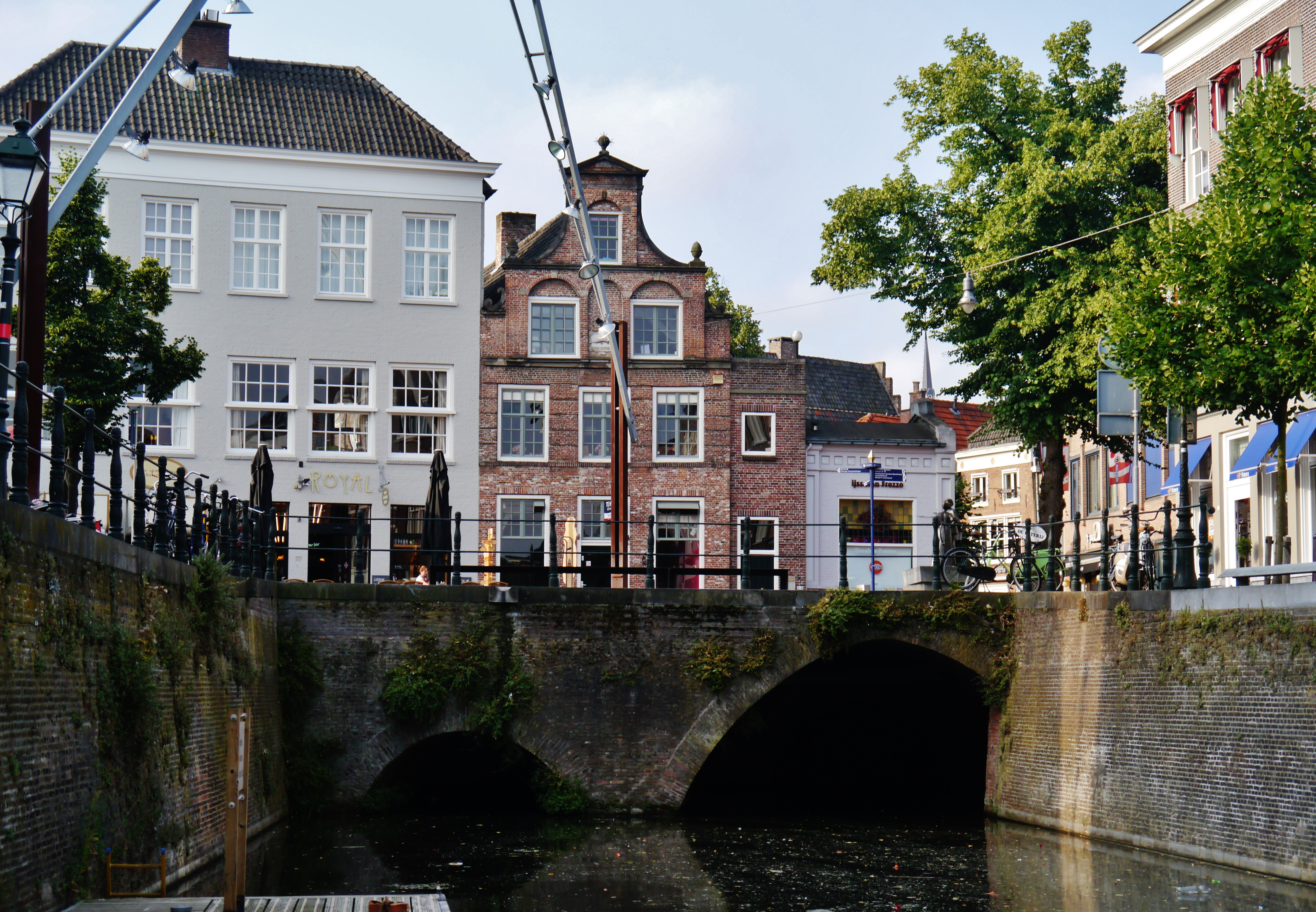 Binnendieze, 's-Hertogenbosch, Province of North Brabant, Netherlands